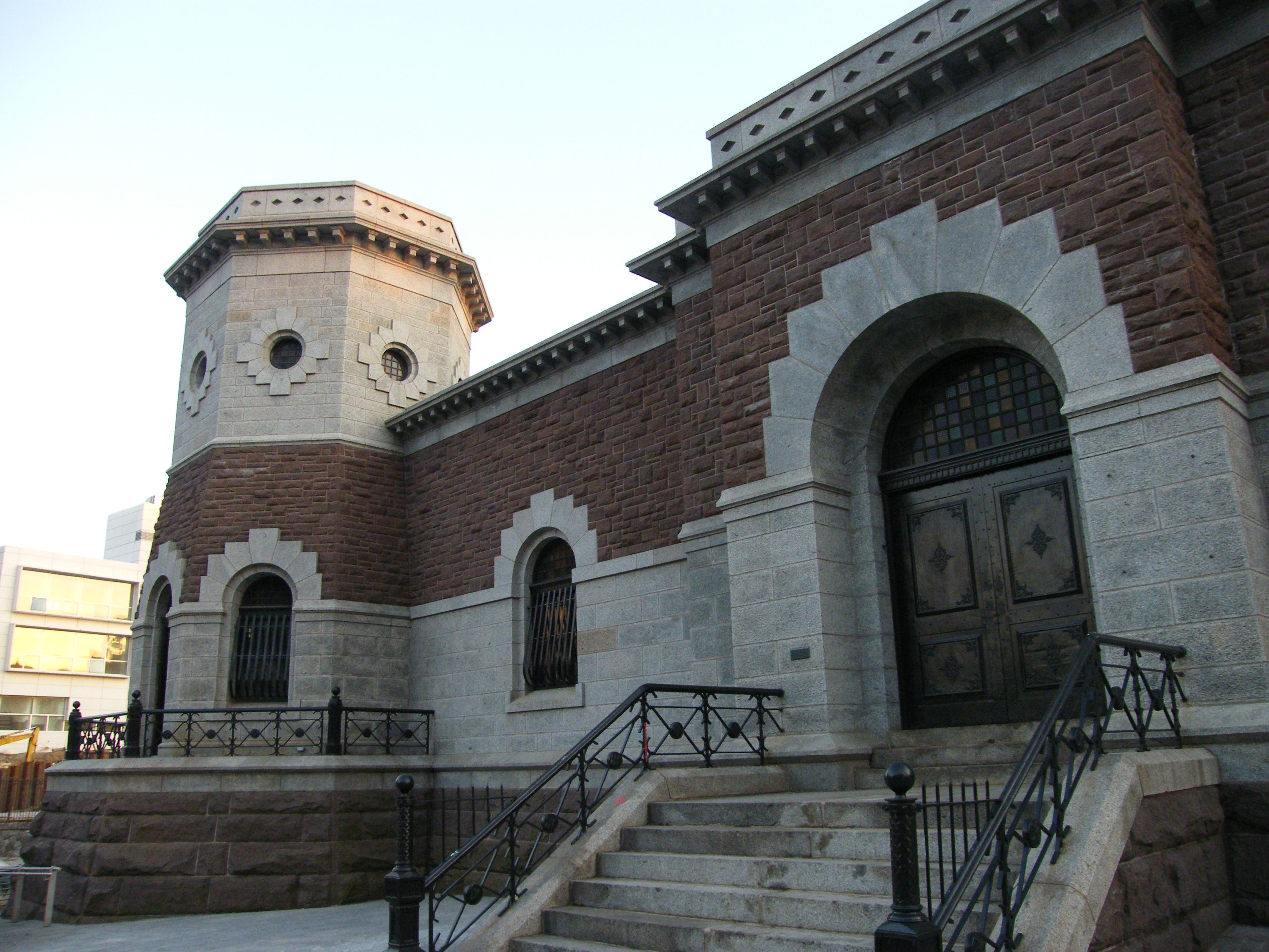 Croton Aqueduct Gatehouse at 135th Street in New York City on National Register of Historic Places. NYCLPC designation 1981; Guidebook map 18. ZIP 10031.